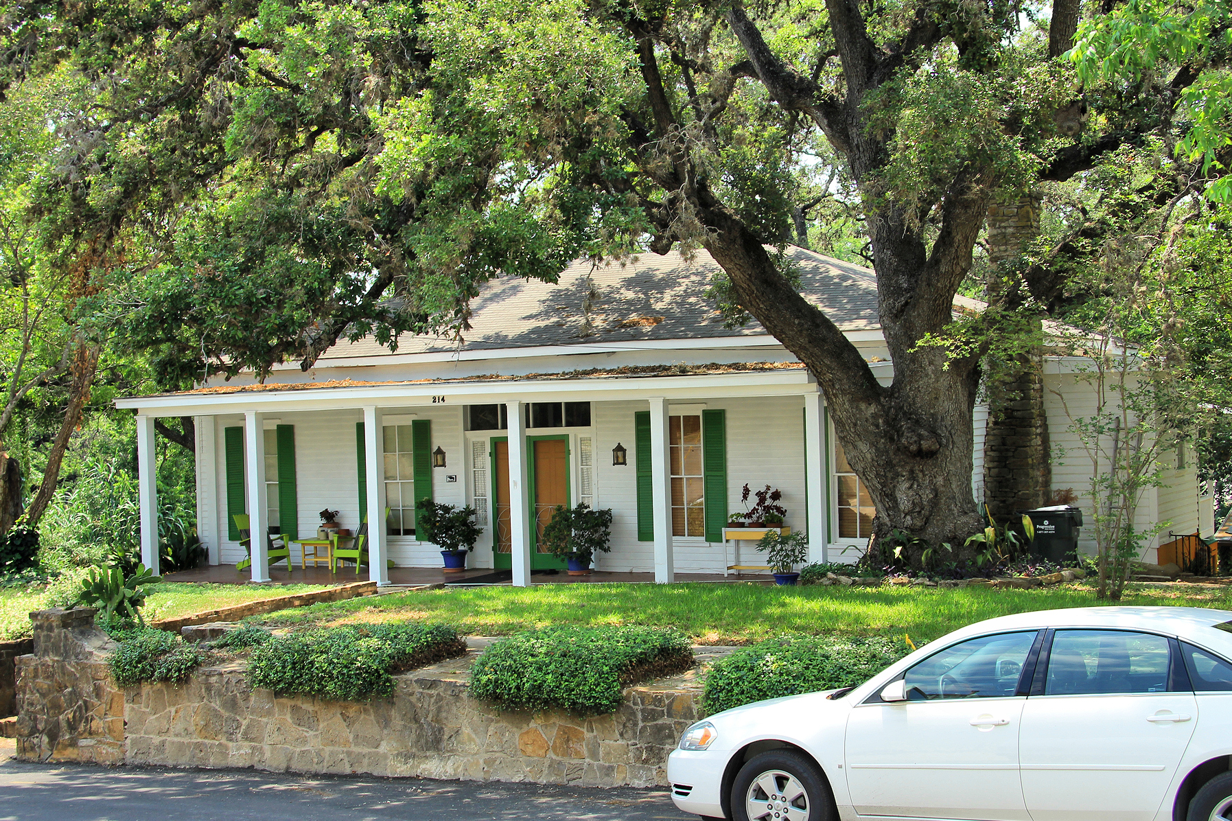 Robert Hall House in Seguin, Texas, United States.